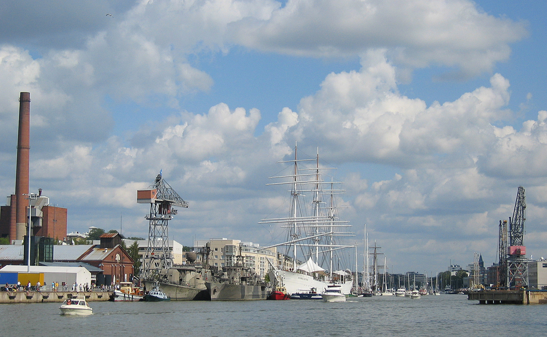 Entry of the Aura River